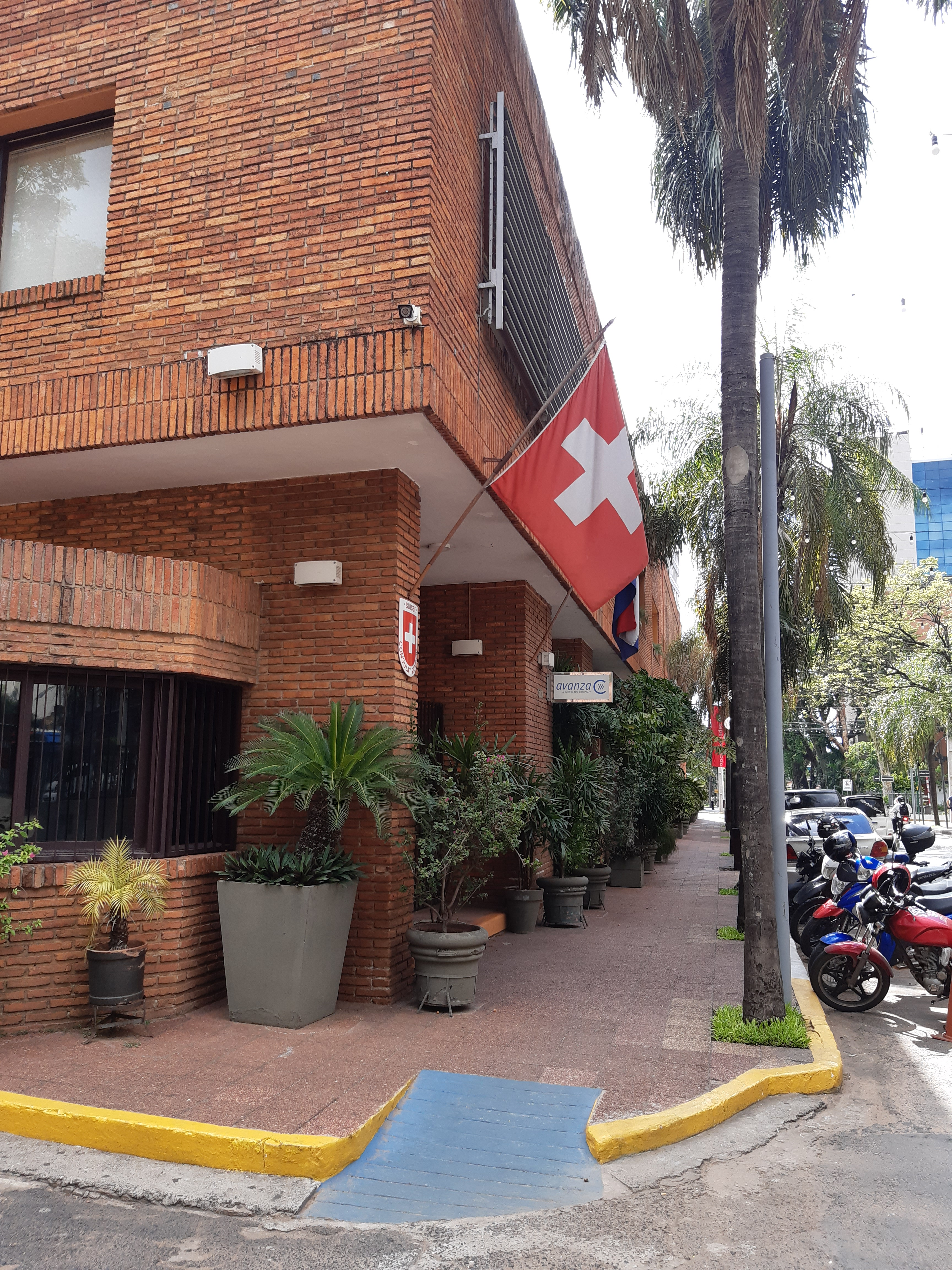 Entrance of the Swiss-Paraguayan Chamber of Commerce